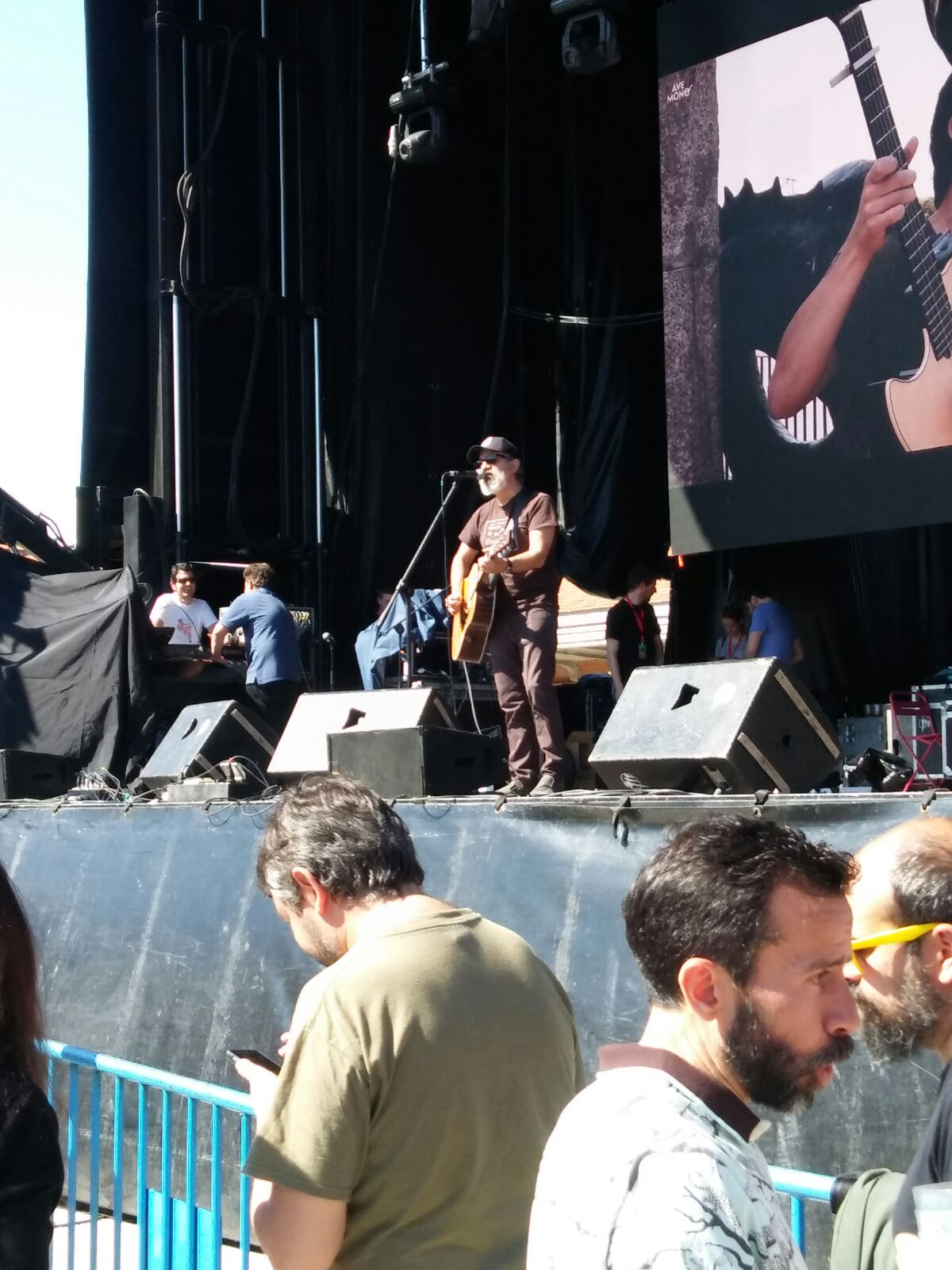 Fernando Alfaro